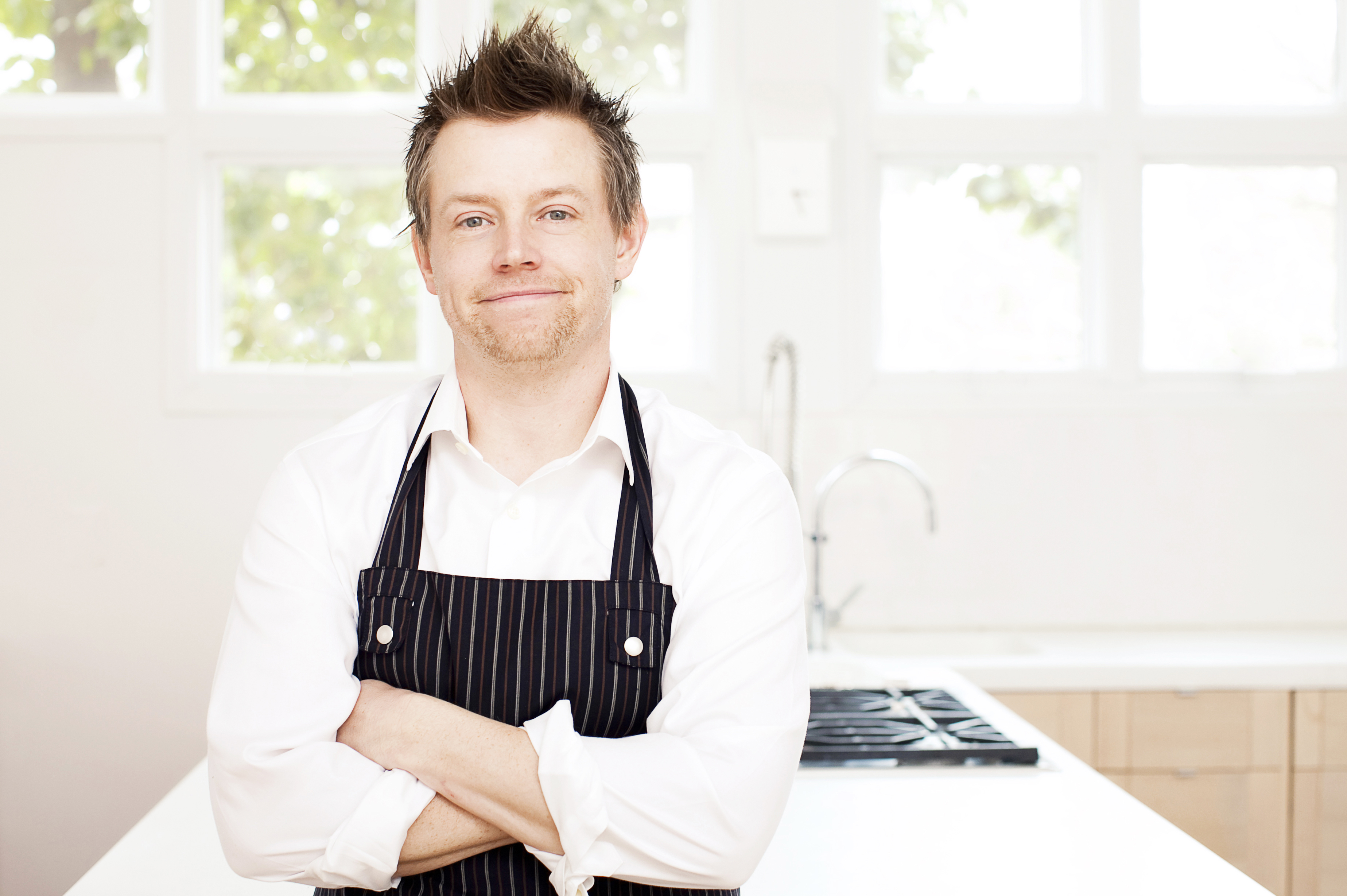 our labor of love